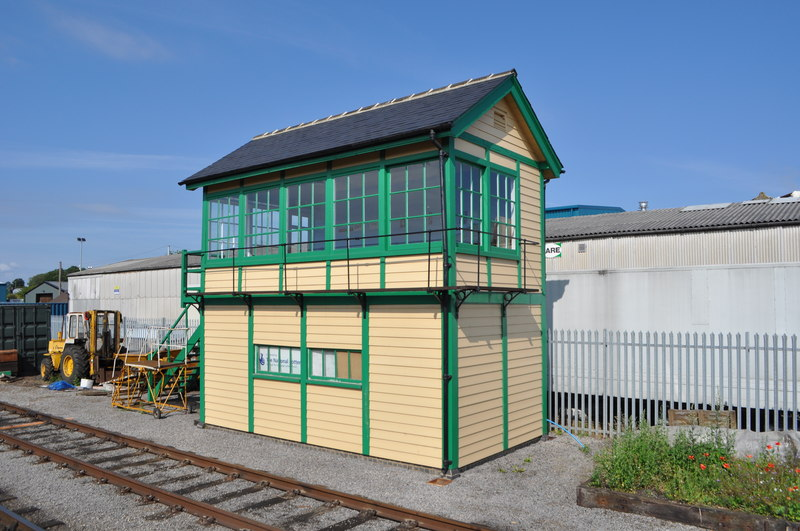 Formerly the North Wooton GER signal box (on the Hunstanton branch) it was moved to Leeming Bar and restored with lottery money. It replaces the brick signal box demolished several years ago.